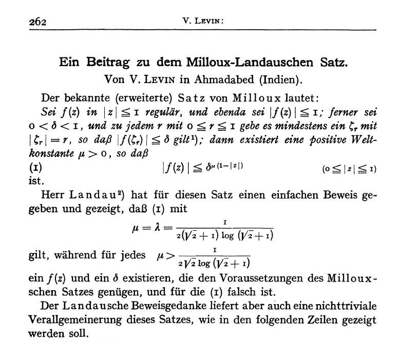 Scan of article of Victor Levin (Jahresbericht der DMV 44, 262-265, 1934)